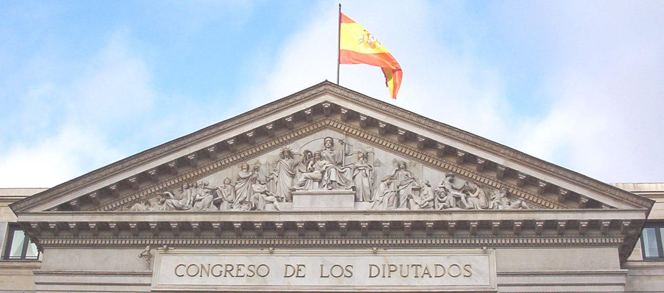 The tympanum of the main façade of the Spanish Congress of Deputies building (Madrid, 1843–1850).